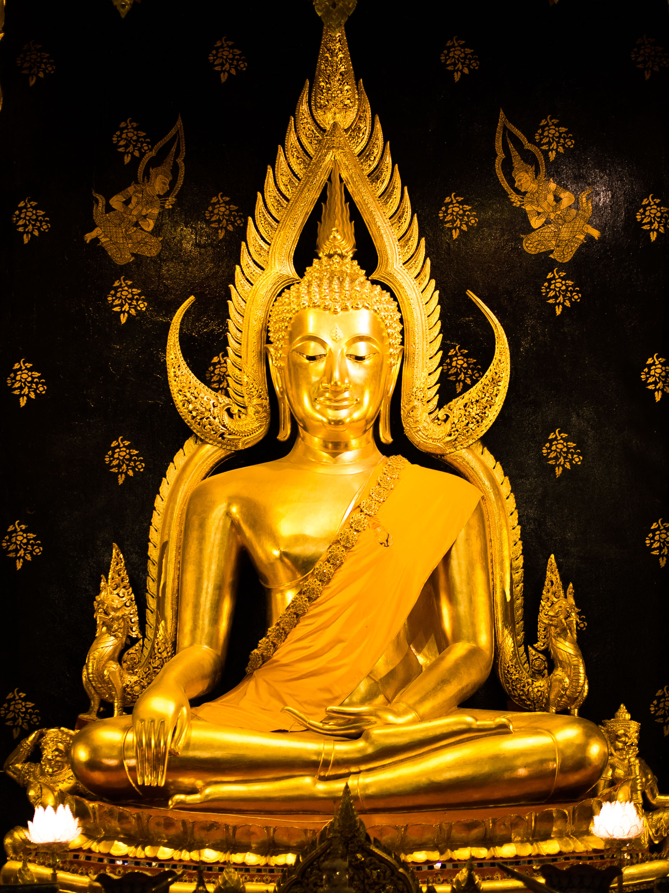 The Phra Buddha Chinnarat of Wat Phra Si Rattana Mahathat in Phitsanulok is regarded by many to be the most beautiful statue of the Buddha in Thailand.